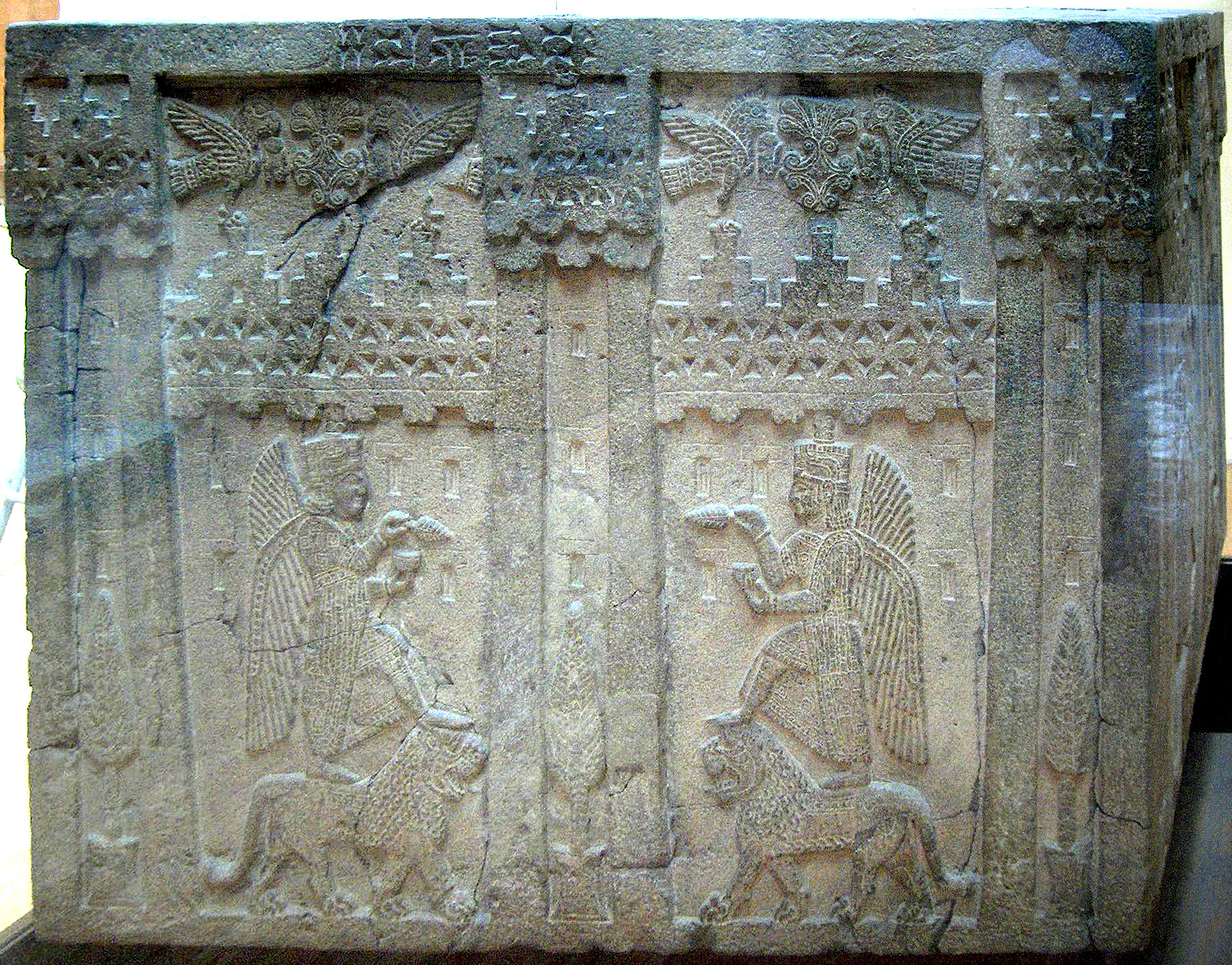 Column base; from Kef Kalesi, Adilcevaz, Eastern Turkey; reign of King Rusa II (685-645 BC); Urartu; ; The god Haldi stands on a lion, holding in his left hand a bowl and in his right hand a spearhead (or a plant); Museum of Anatolian Civilizations, Ankara, Turkey